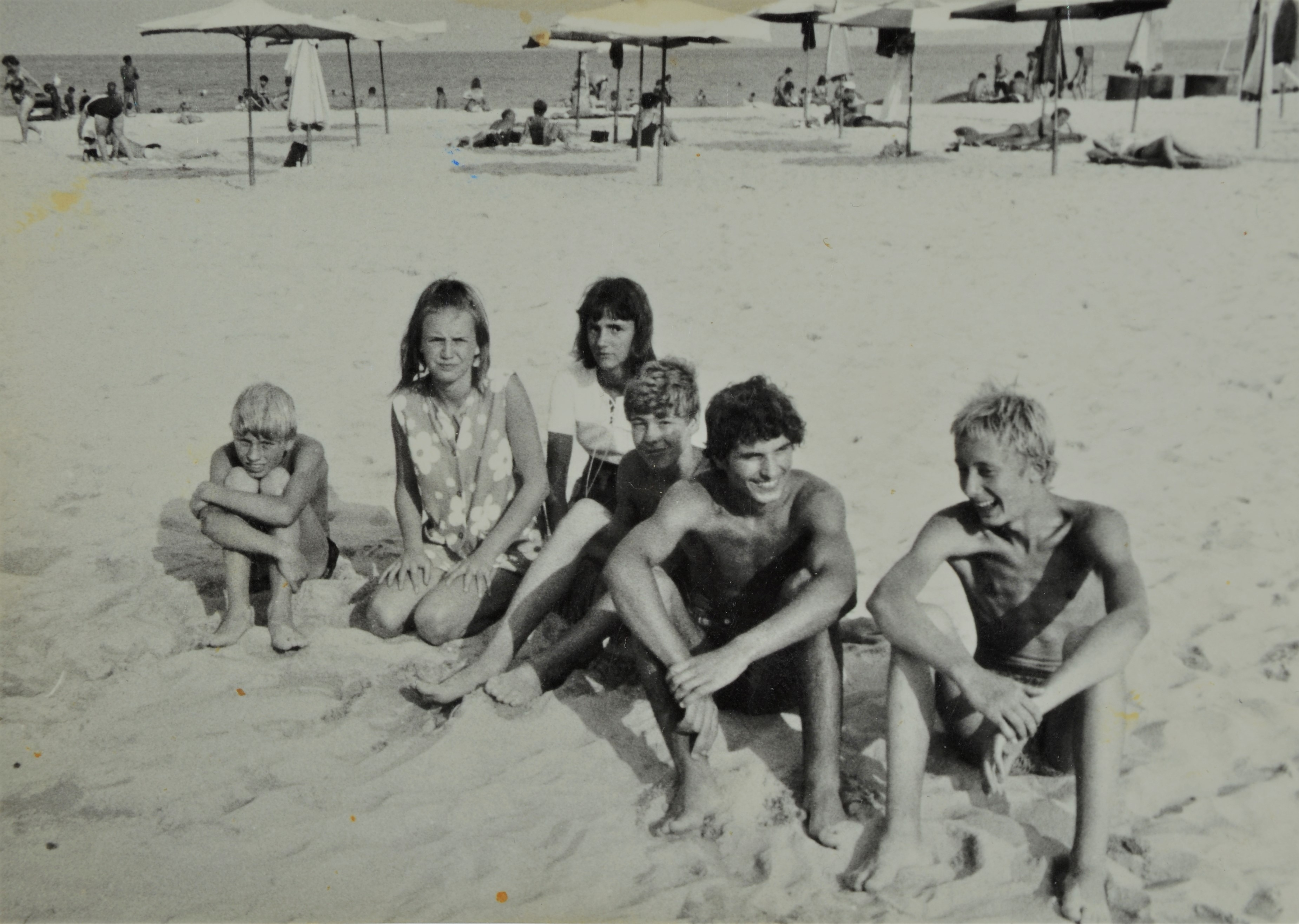 Photo of the year 1975, youth on the beach in Kranevo (Kranevo Beach resort in Bulgaria)